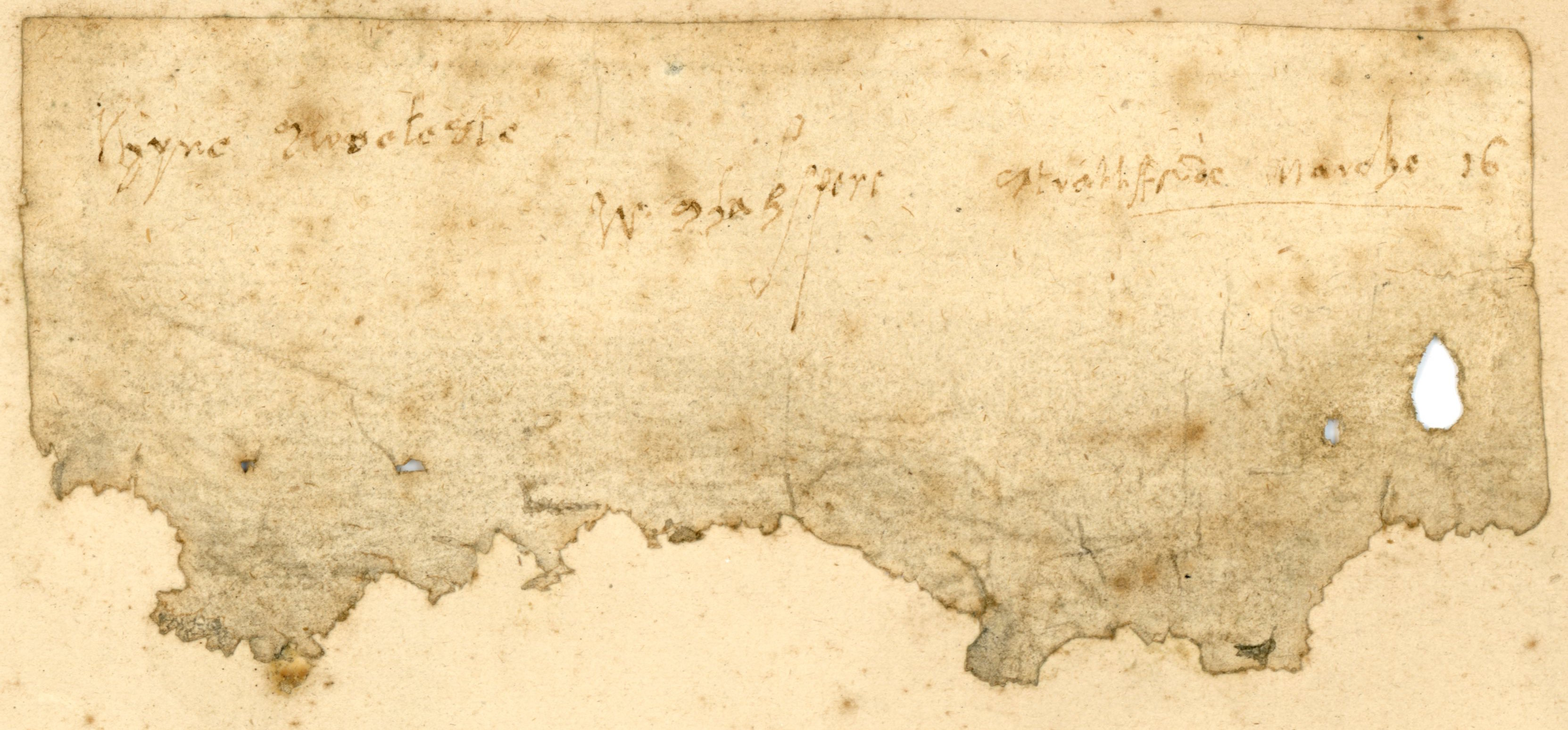 ""thyne sweeteste, w. shakspere, stratfforde, marche 16" supposed Autograph of Shakespeare found in a Work of Ovide, and exposed at Bury St. Edmund's in 1865 p. 83